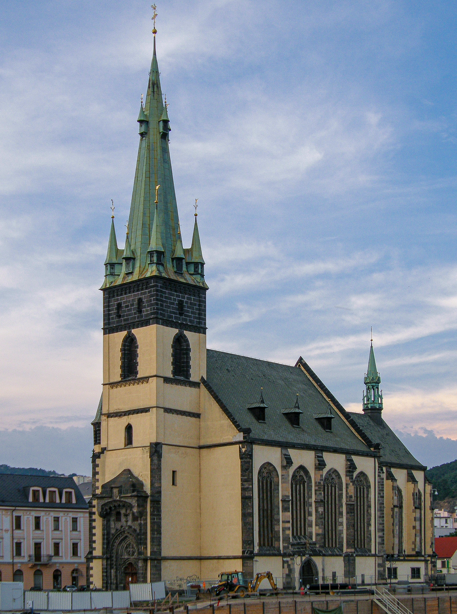 church in Ústí nad Labem